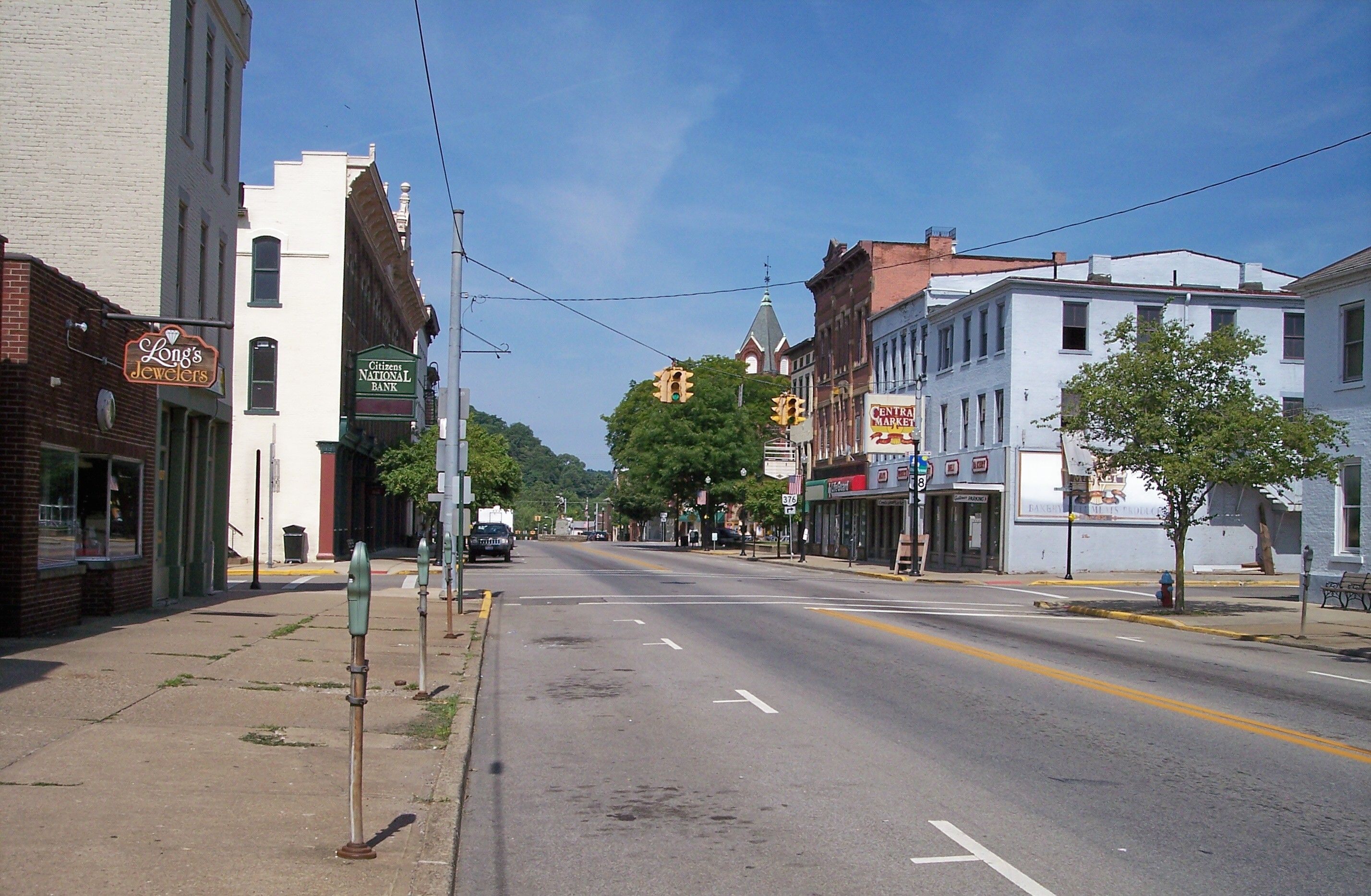 Main Street (Ohio Routes 60 and 78) in McConnelsville, Ohio.